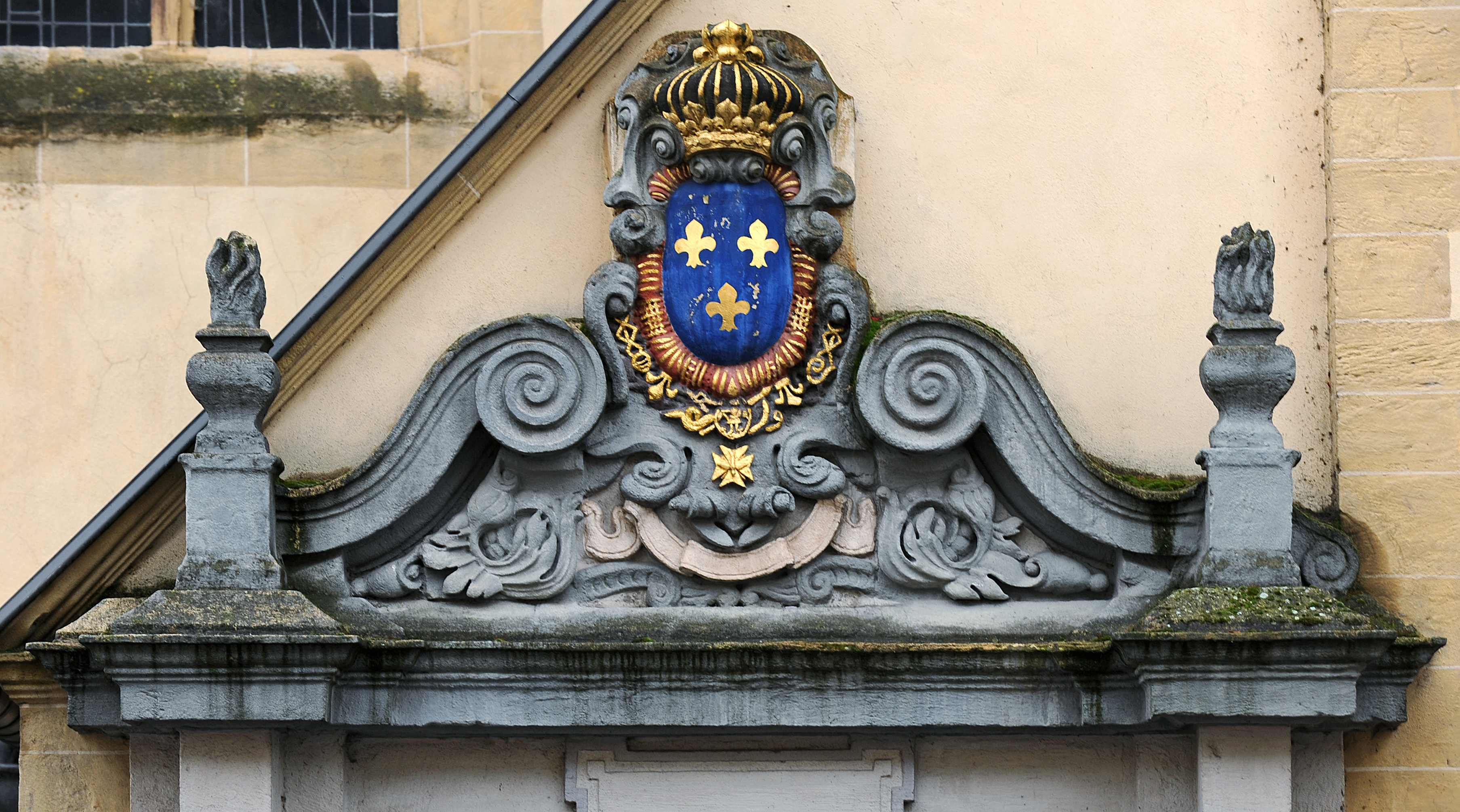 Luxembourg City, église Saint-Michel. Pediment with the coat of arms of Louis XIV commemorating the stay of the Sun King in Luxembourg City in 1687.